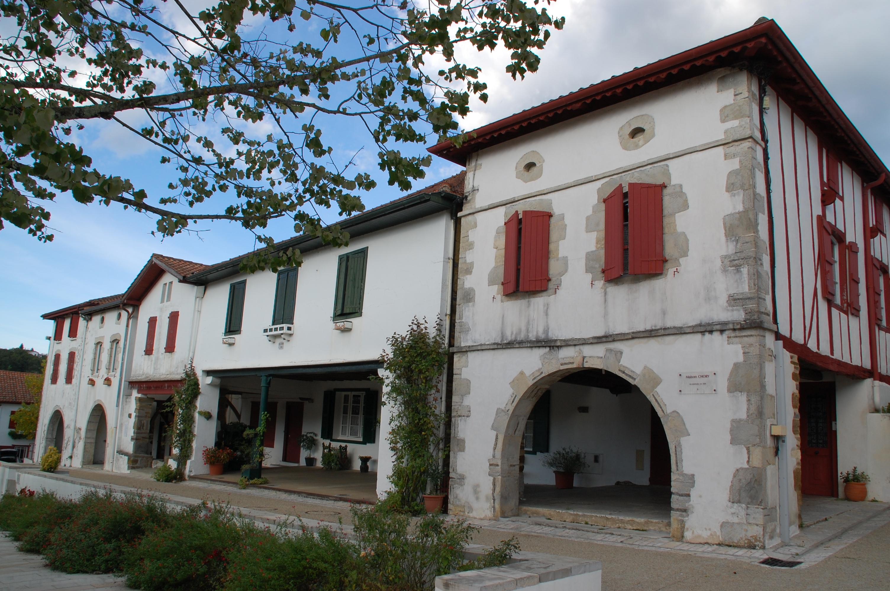 Place des arceaux (northward)